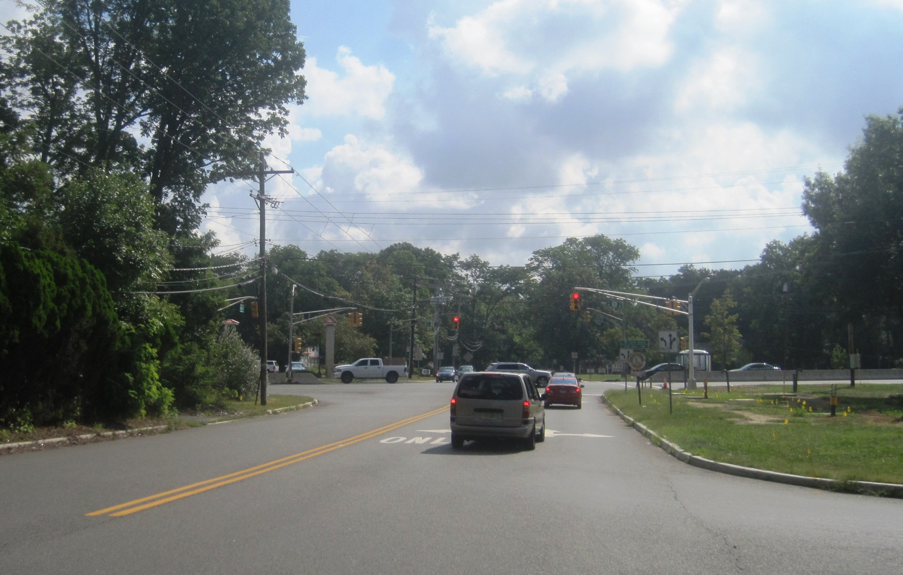 Photo showing Bergerville, New Jersey, an unincorporated community within Howell Township. Photo taken along eastbound Bergerville Road approaching U.S. Route 9.